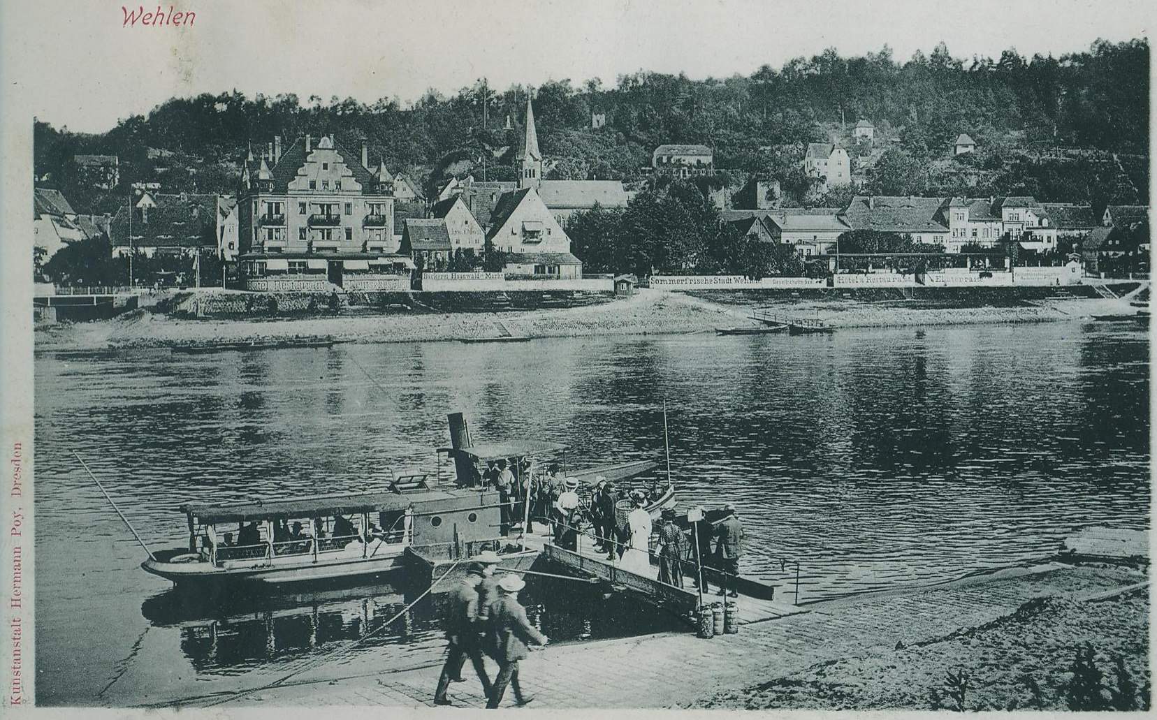 Stadt Wehlen, Germany